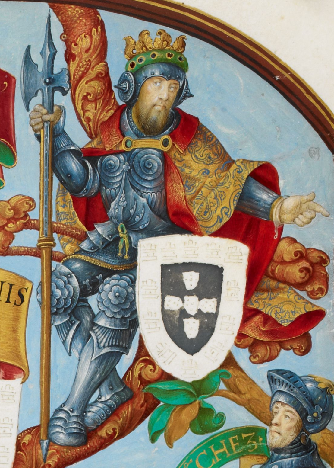 King Alfonso IV of Portugal (1291-1357), in a 16th-century miniature.